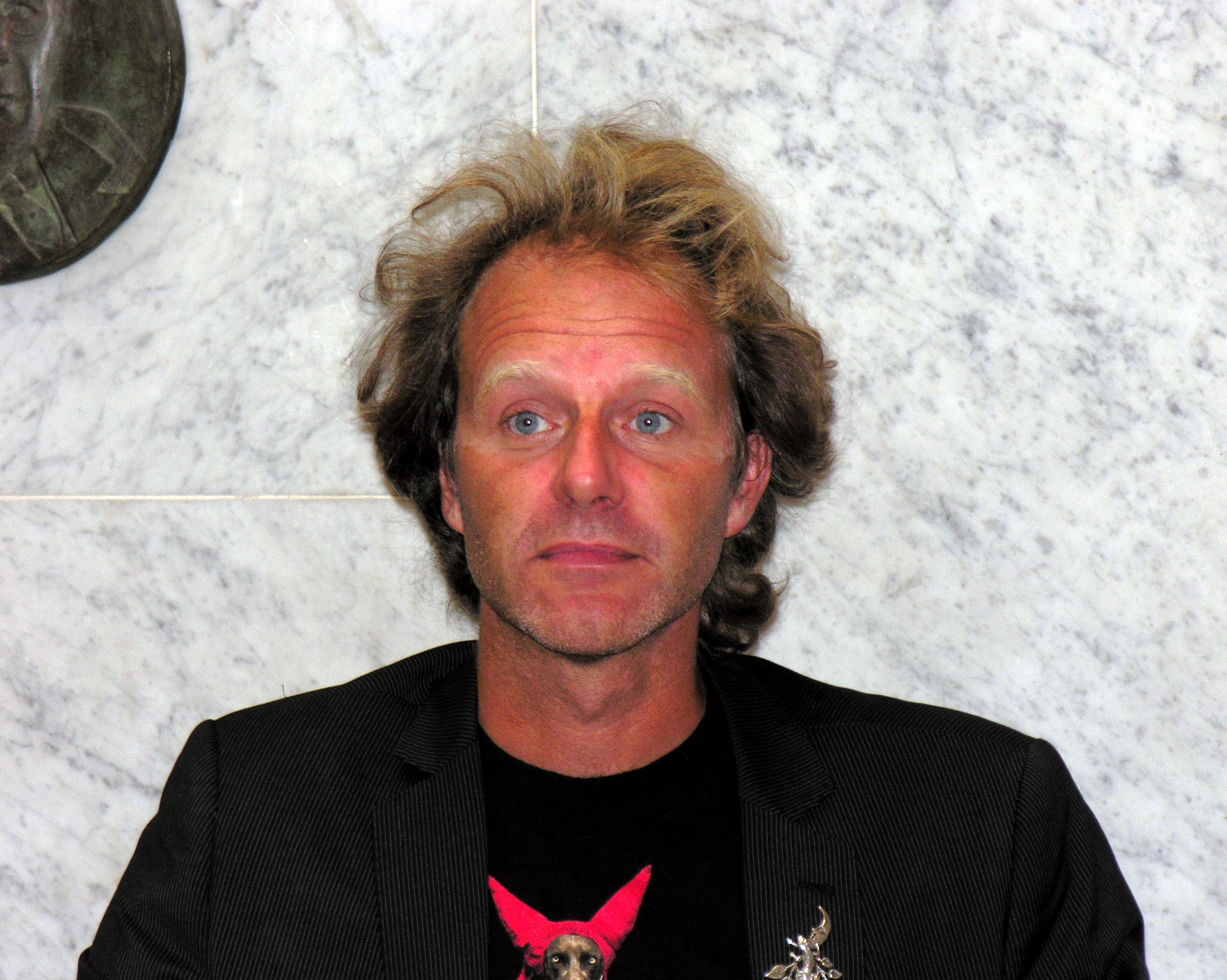 John Ajvide Lindqvist, Swedish writer, the Night of the Arts in Helsinki, 2008.